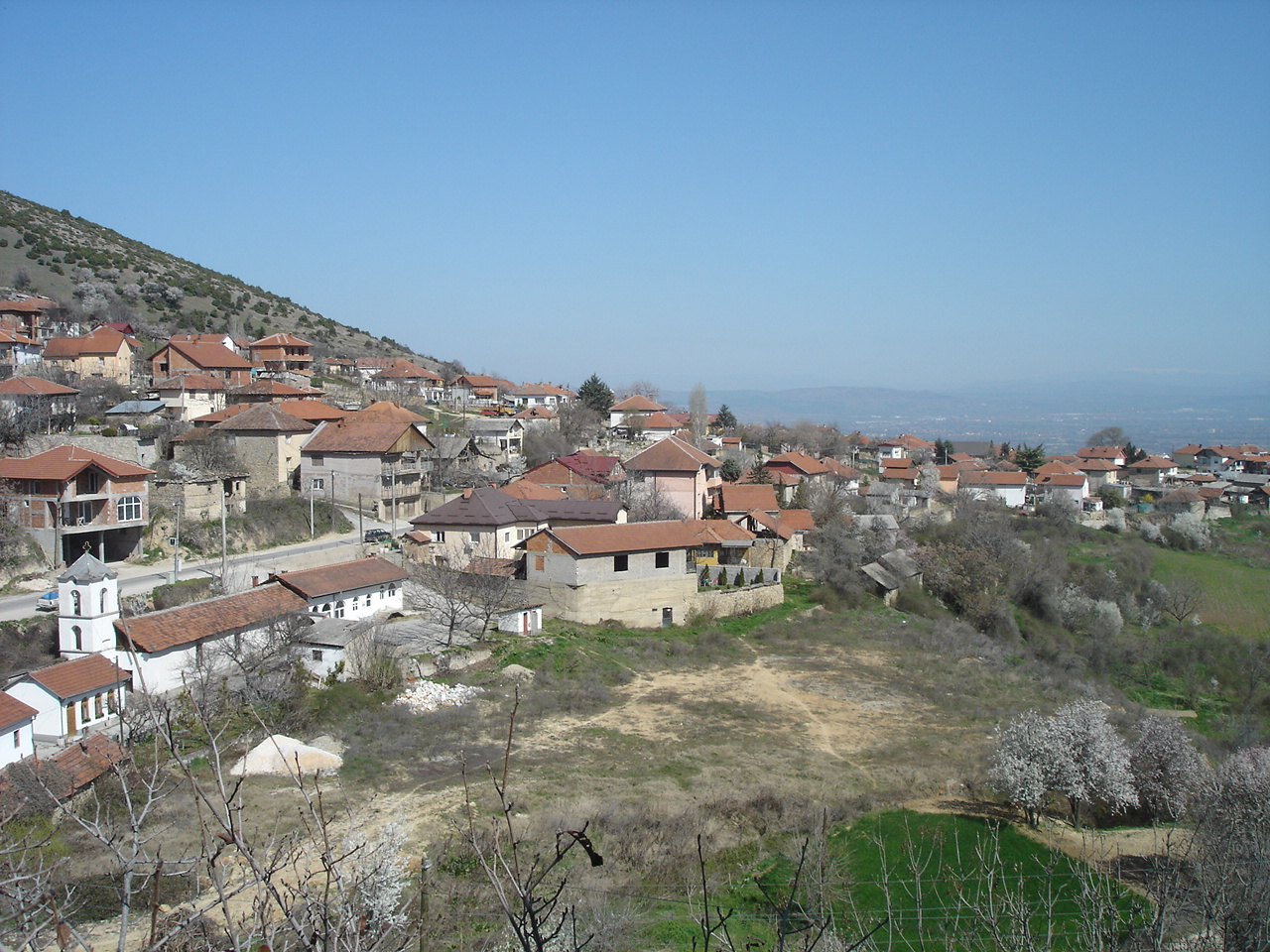 village of Sopishte, Macedonia